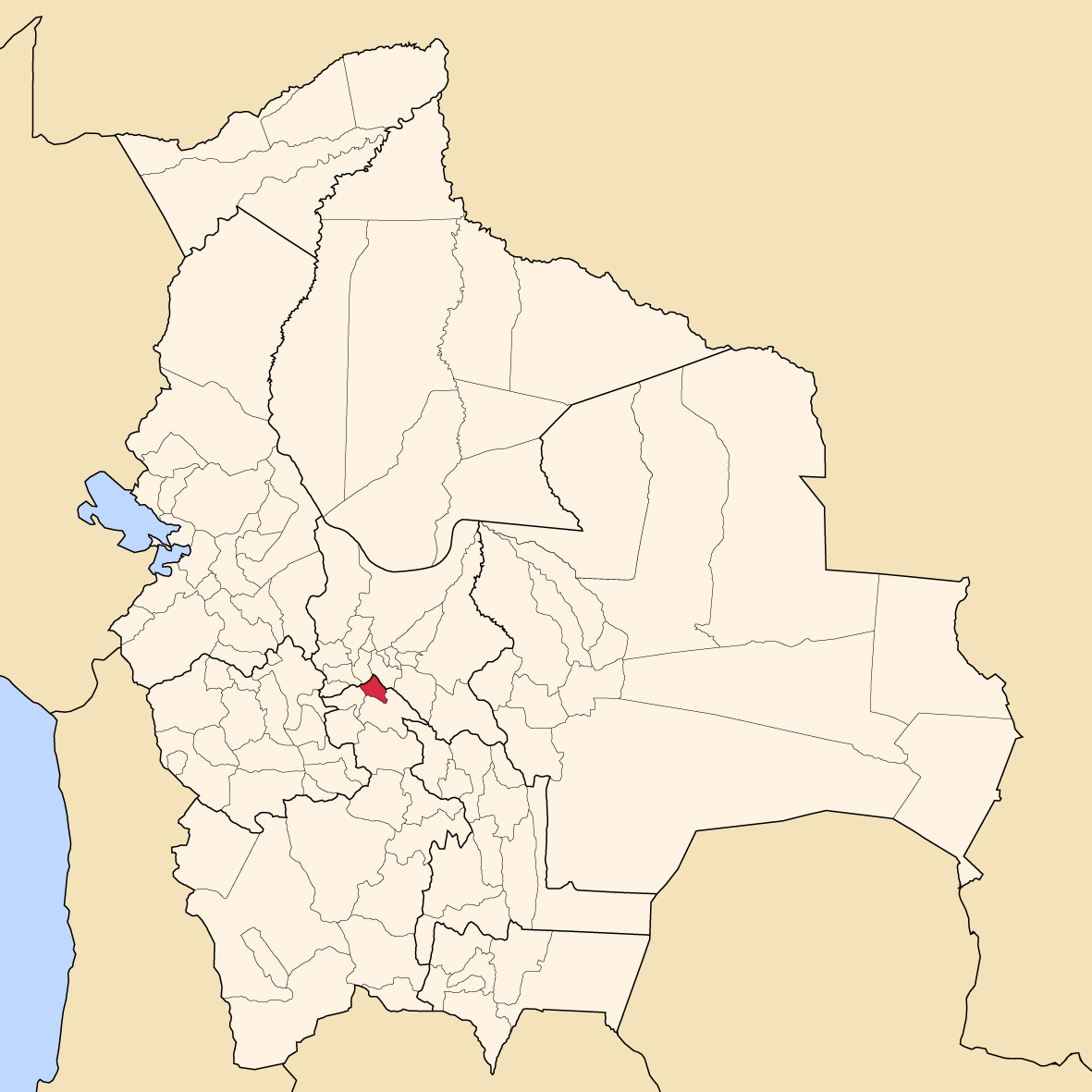 Map of Bolivia showing Bernardino Bilbao province, Potosí